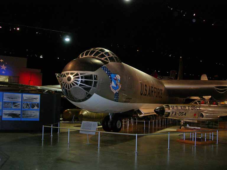 B-36 Peacemaker at the National Museum of the United States Air Force Also shown is an F-94 Starfire